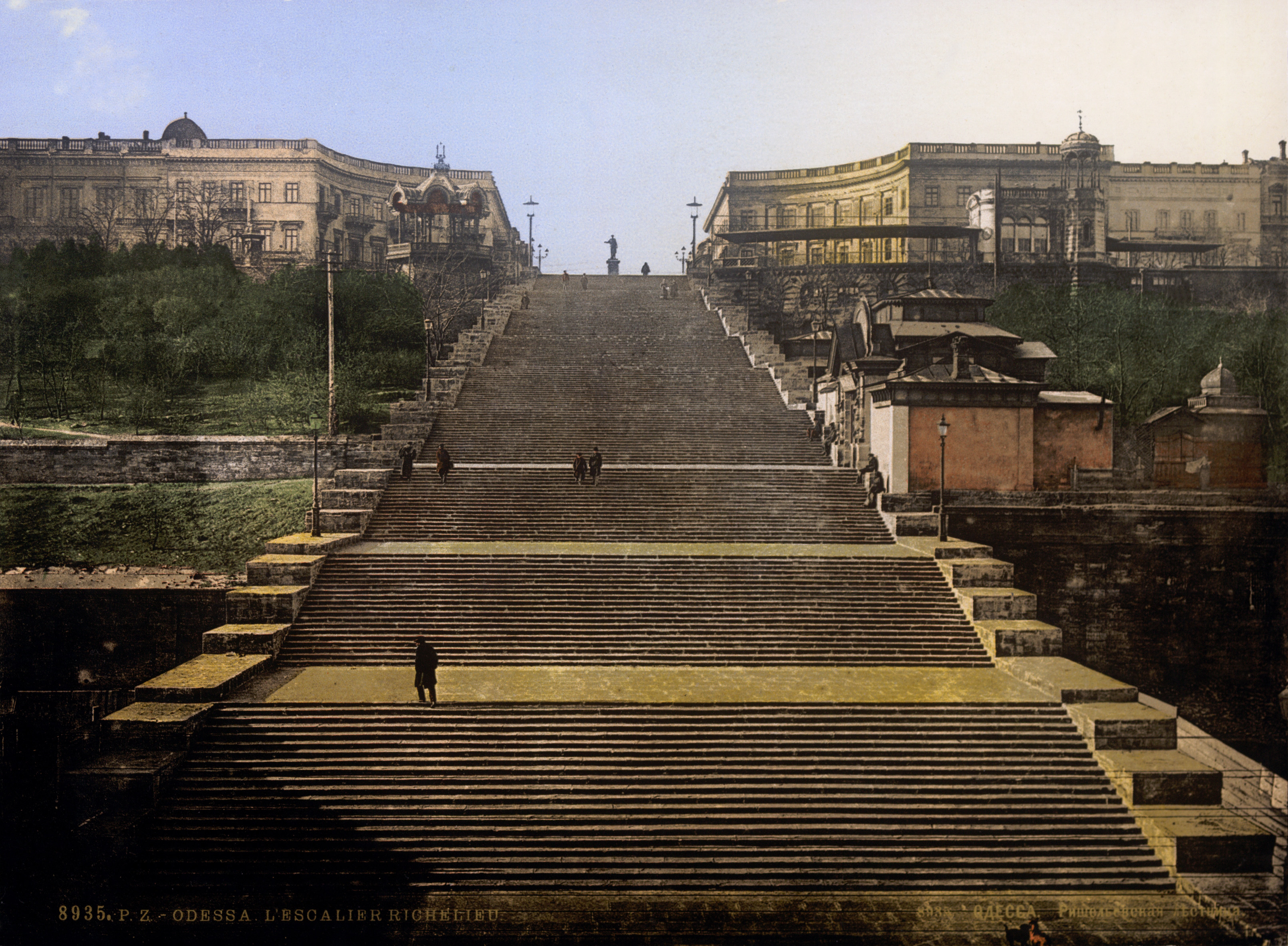 The Richelieu Stairs, now known as the Potemkin Stairs, site of the famous scene in Sergei Eisenstein's silent movie The Battleship Potemkin. From the Detroit Publishing Co. Collection at the U.S. Library of Congress. More postcards of the Russian Empire | More photochrom postcards [PD] This picture is in the public domain.